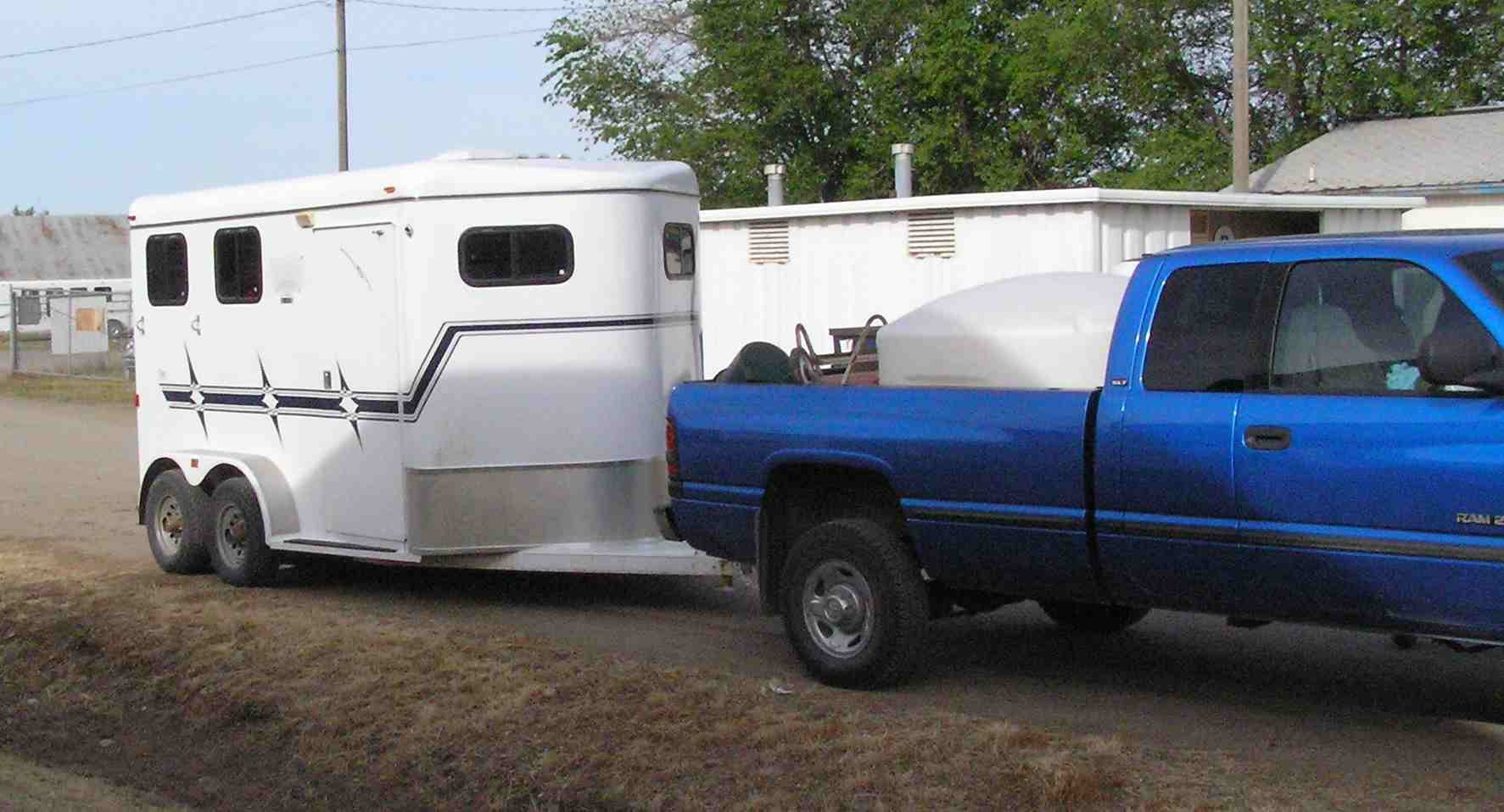 A bumper-pull two or three horse slant horse trailer